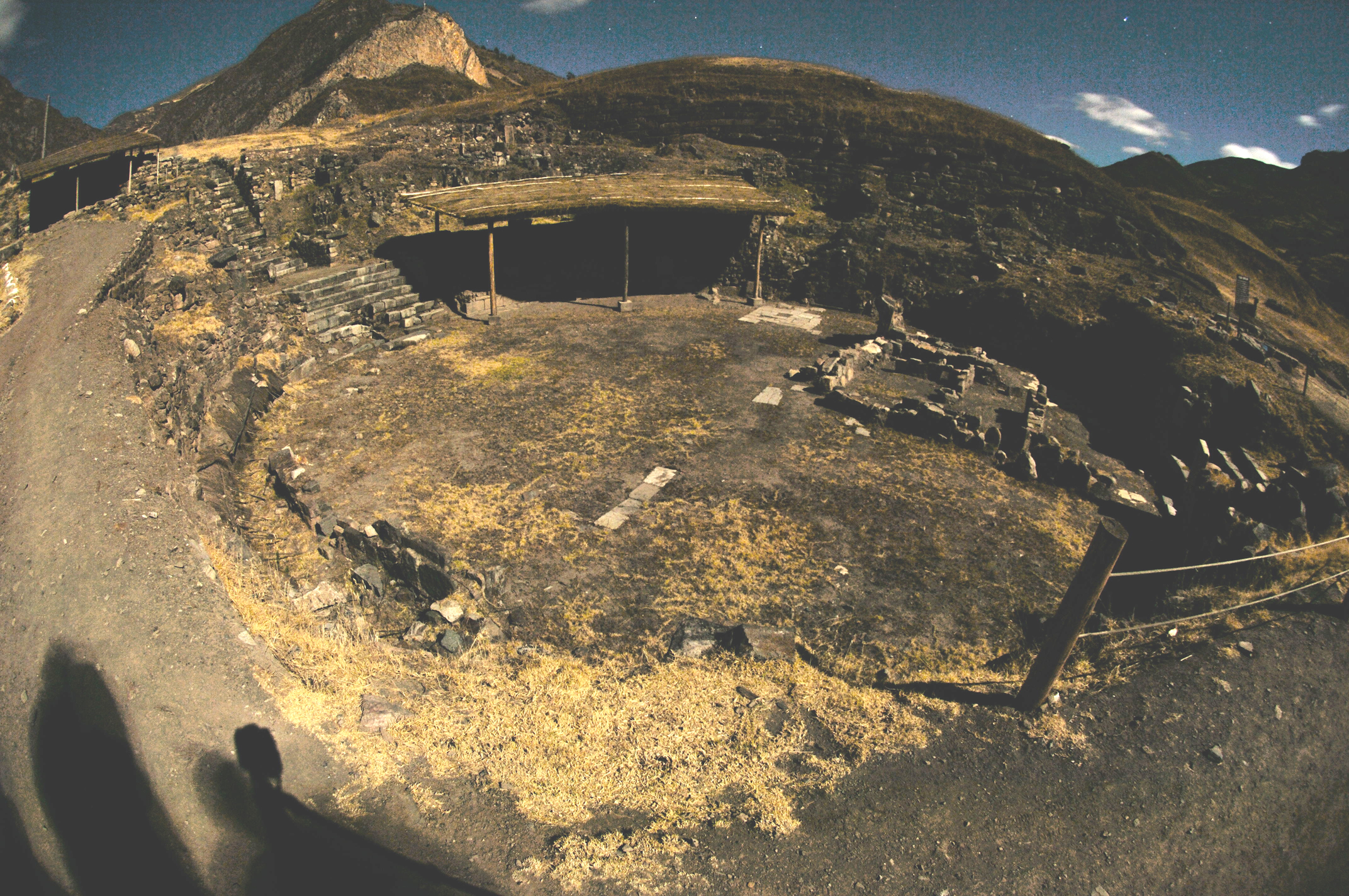 The Circular Plaza Terrace was built up around the Circular Plaza in order to make the 21m-diameter plaza artificially sunken. Located within the Circular Plaza Atrium, it appears that the terrace and the other components of the Atrium (the plaza, the terrace, a staircase, and three galleries) were constructed contemporarily. The 2.52m tall Tello Obelisk, carved from granite, excavated by Julio Tello in the 1930s and currently housed in the anthropology and history museum in Lima, would have originally stood in the center of this plaza. The thatch roofing, as described by Stanford archaeologist John Rick, protects a series of engraved stone plaques portraying jaguars and Chavin personages that were revealed during excavations in the Circular Plaza.